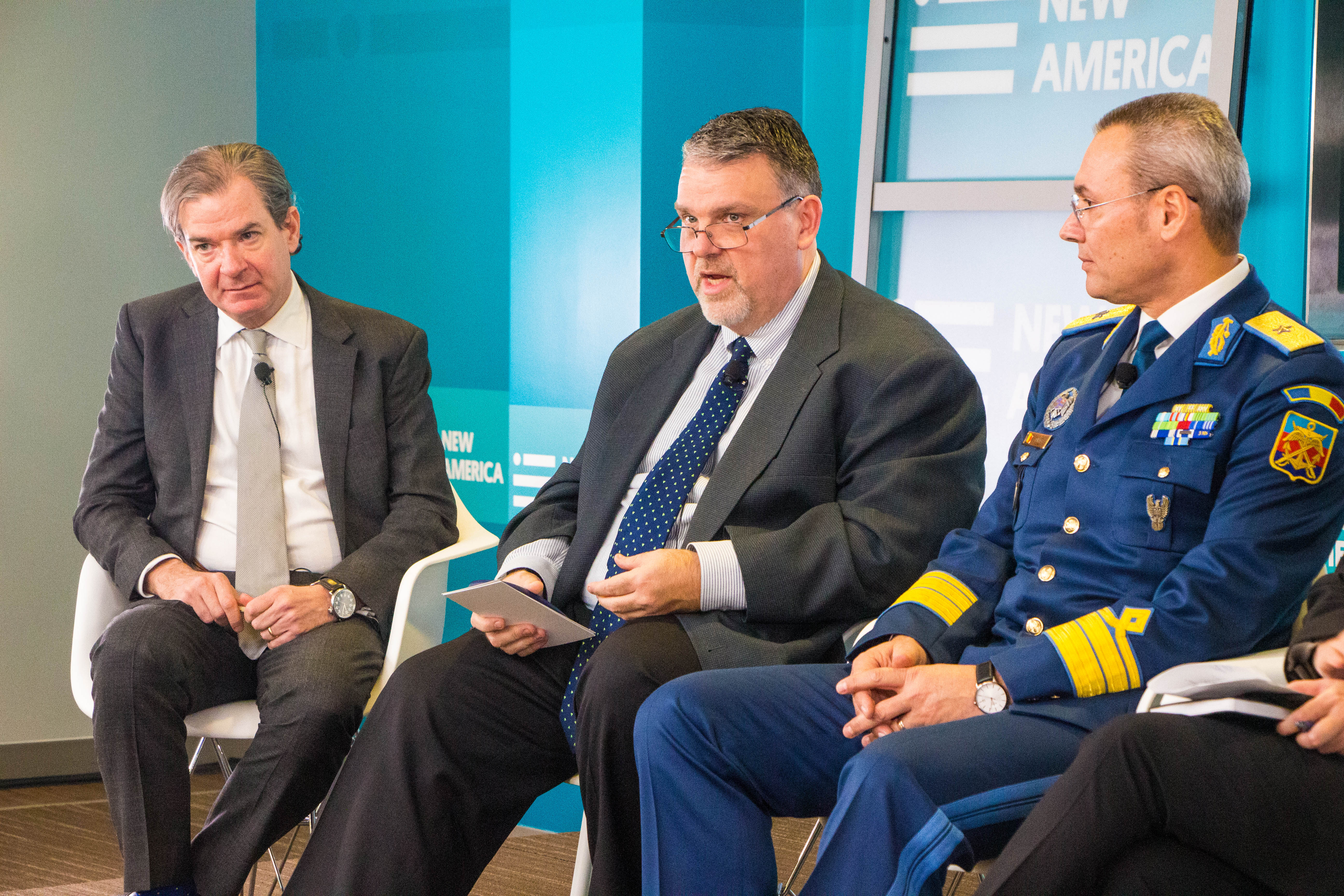 From far left to right: Peter Bergen, Vice President , Global Studies & Fellows, New America, Nicholas Rasmussen, Senior Director, McCain Institute Counterterrorism Program and former Director, National Counterterrorism Center, and Air Flotilla General Vasile Toader, Deputy Chief of Defense Staff for Operations and Training, Romanian Ministry of National Defense.